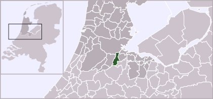 Locator map of Dutch municipalities in Noord-Holland (LocatieOuder-Amstel.png)